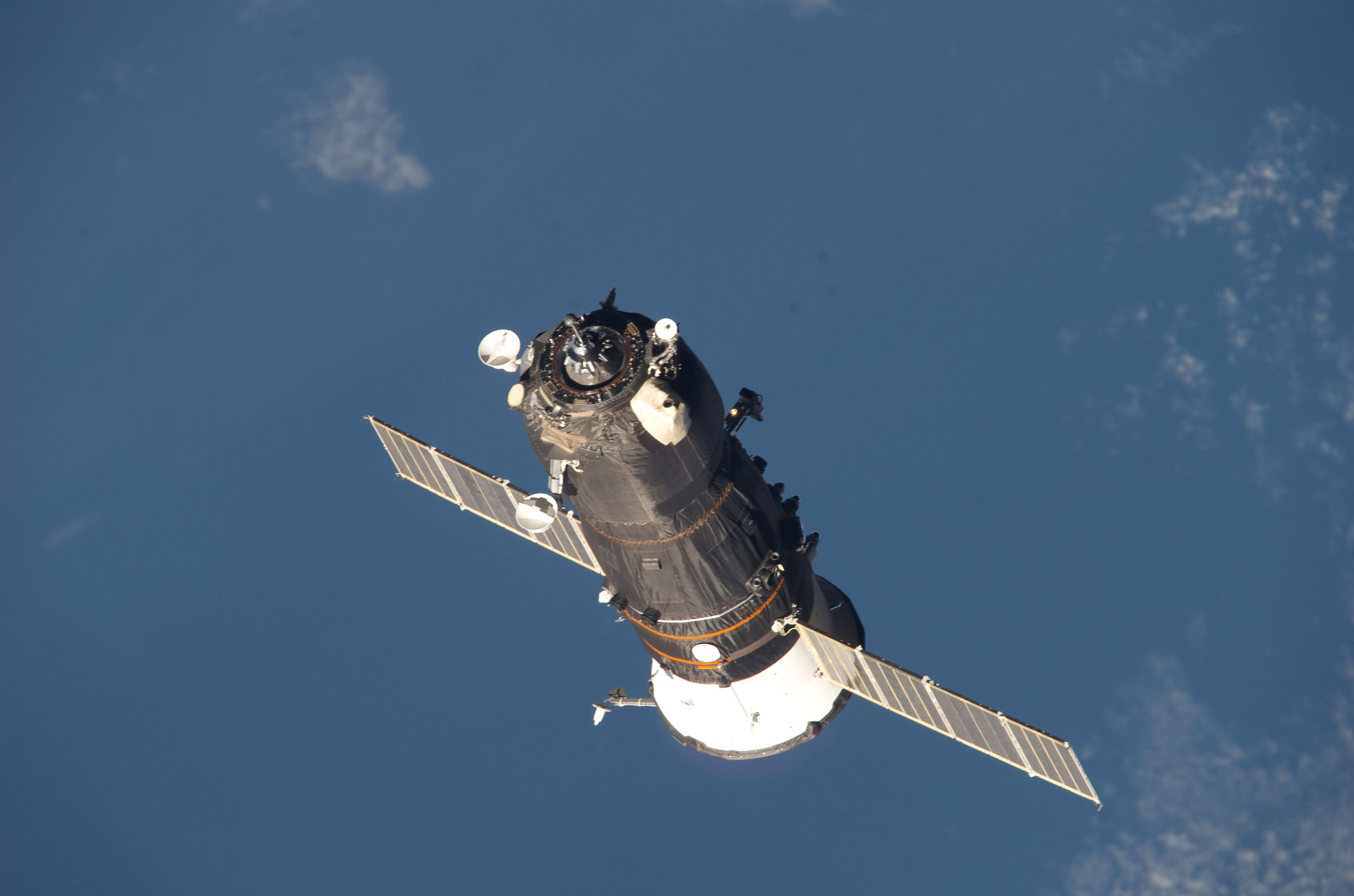 An unpiloted ISS Progress resupply vehicle approaches the International Space Station, bringing 2.6 tons of food, fuel, oxygen, propellant and supplies for the Expedition 23 crew members aboard the station. Progress 37 docked to the Pirs Docking Compartment at 2:30 p.m. (EDT) on May 1, 2010, after a three-day flight from the Baikonur Cosmodrome in Kazakhstan. The docking was conducted by Russian cosmonaut Oleg Kotov, commander, in manual control through the TORU (telerobotically operated) rendezvous system due to a jet failure on the Progress that forced a shutdown of the Kurs automated rendezvous system.